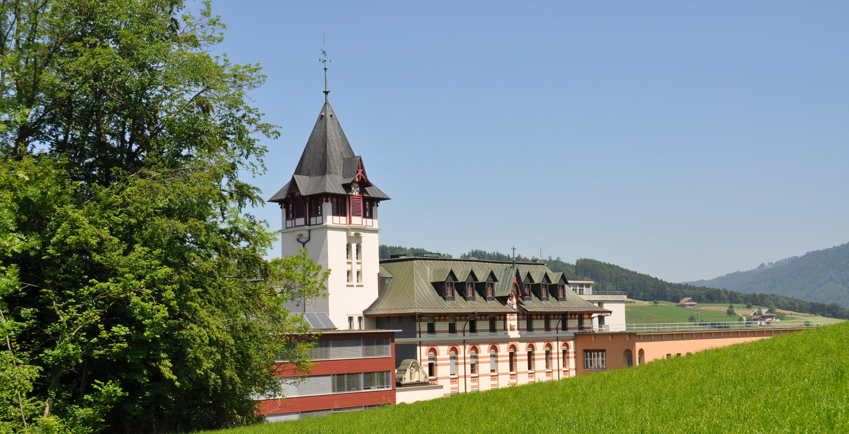 Gymnasium Immensee